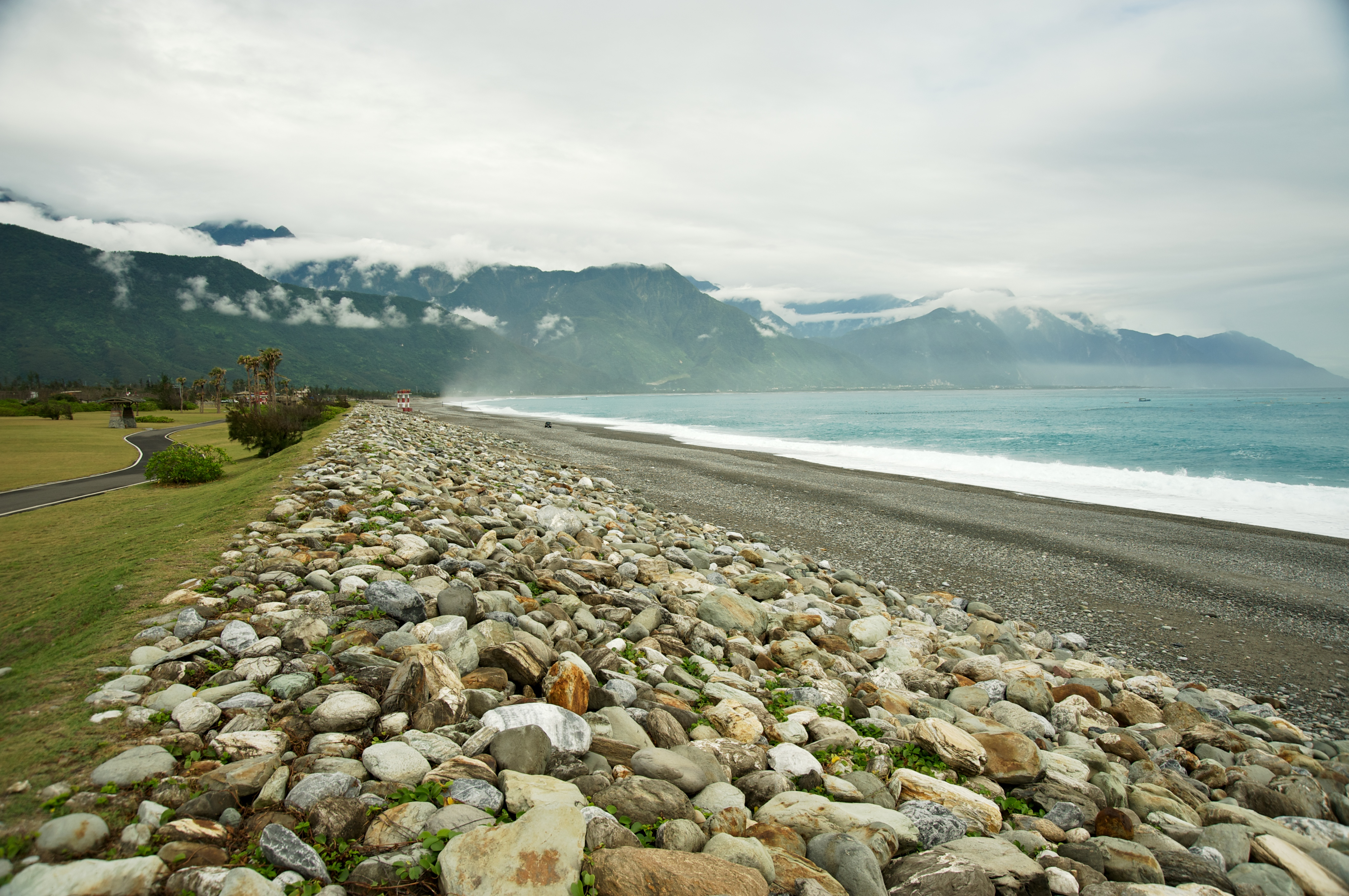 CiSingTan Bay in Hualient City in Taiwan